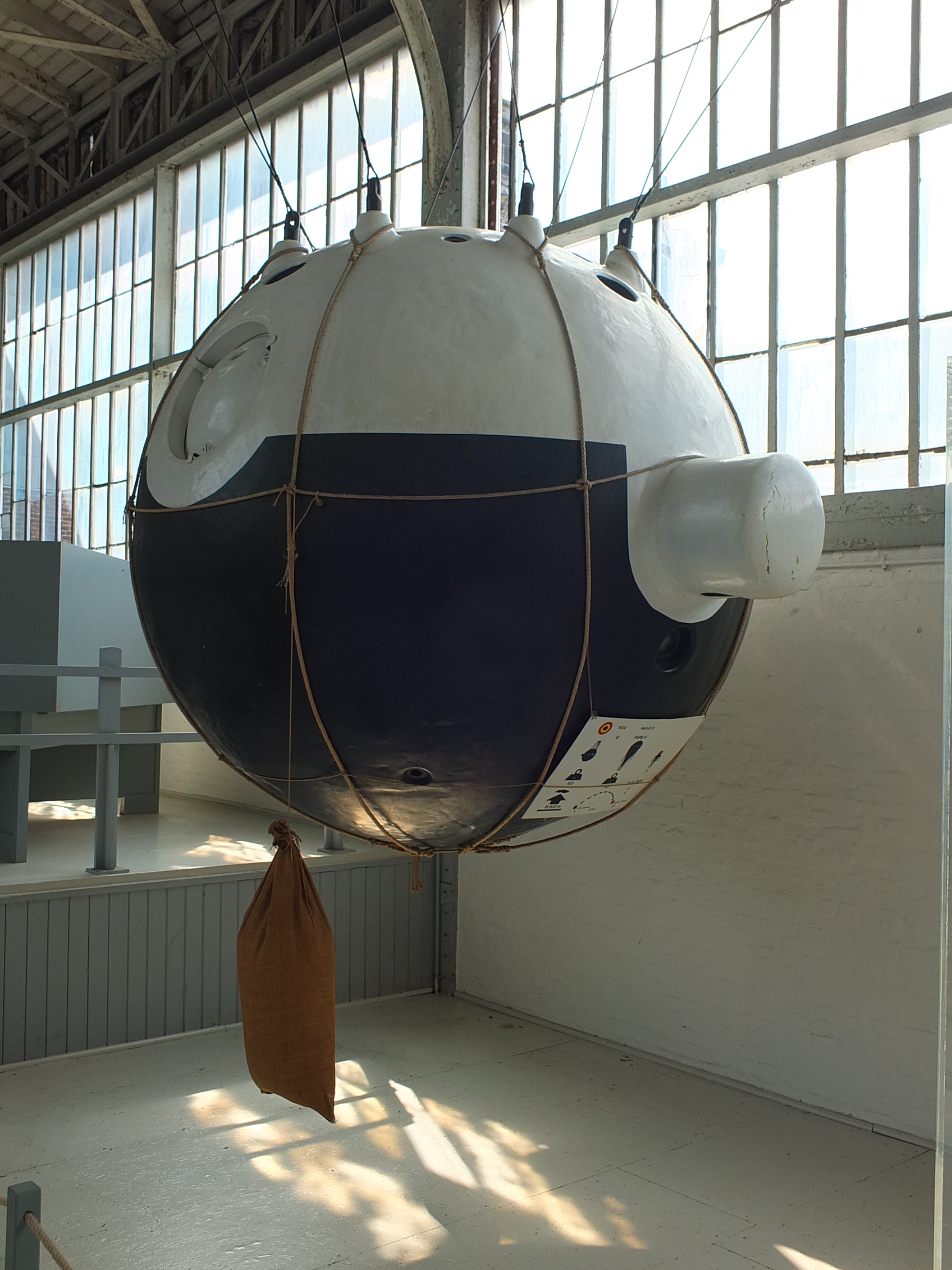 The spherical, pressurized aluminum gondola (1934) with which prof Piccard, with the support of the National Fund for Scientific Research (NFWO/FNRS), performed stratospheric research.